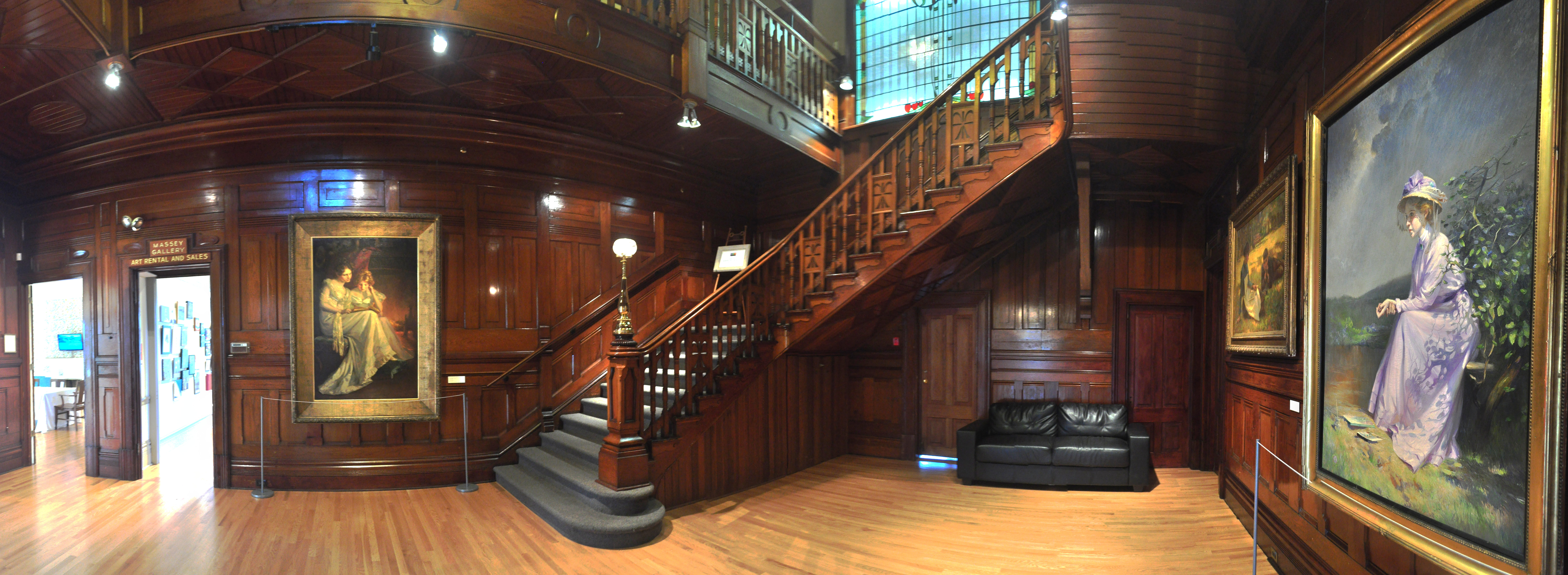 Panoramic view of the interior, Spencer Mansion (built 1889), Art Gallery of Greater Victoria, Victoria, British Columbia. This image was created with Hugin.